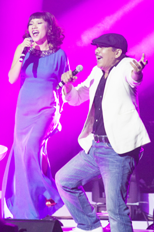 12 Aug 2012 / Hanoi, Vietnam.